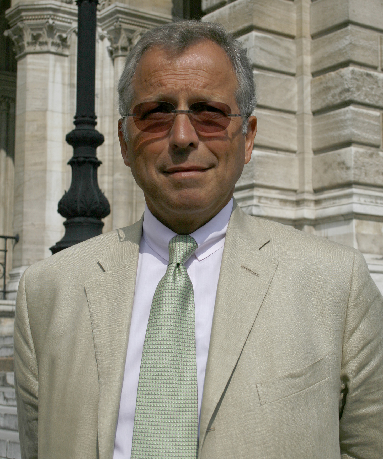 Austrian politician Ferdinand Maier during the campaign for the legislative election 2008.